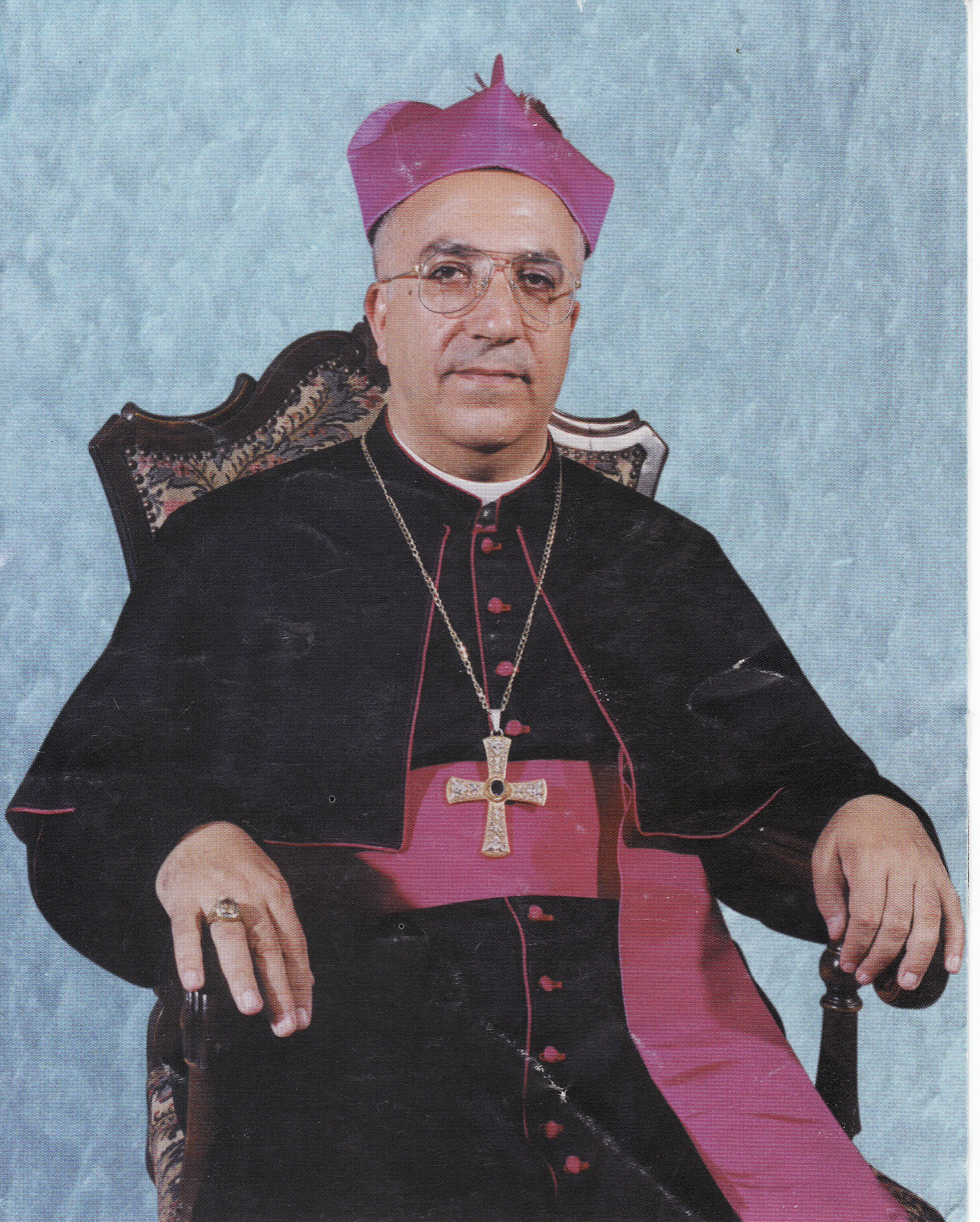 bishop antonino migliore